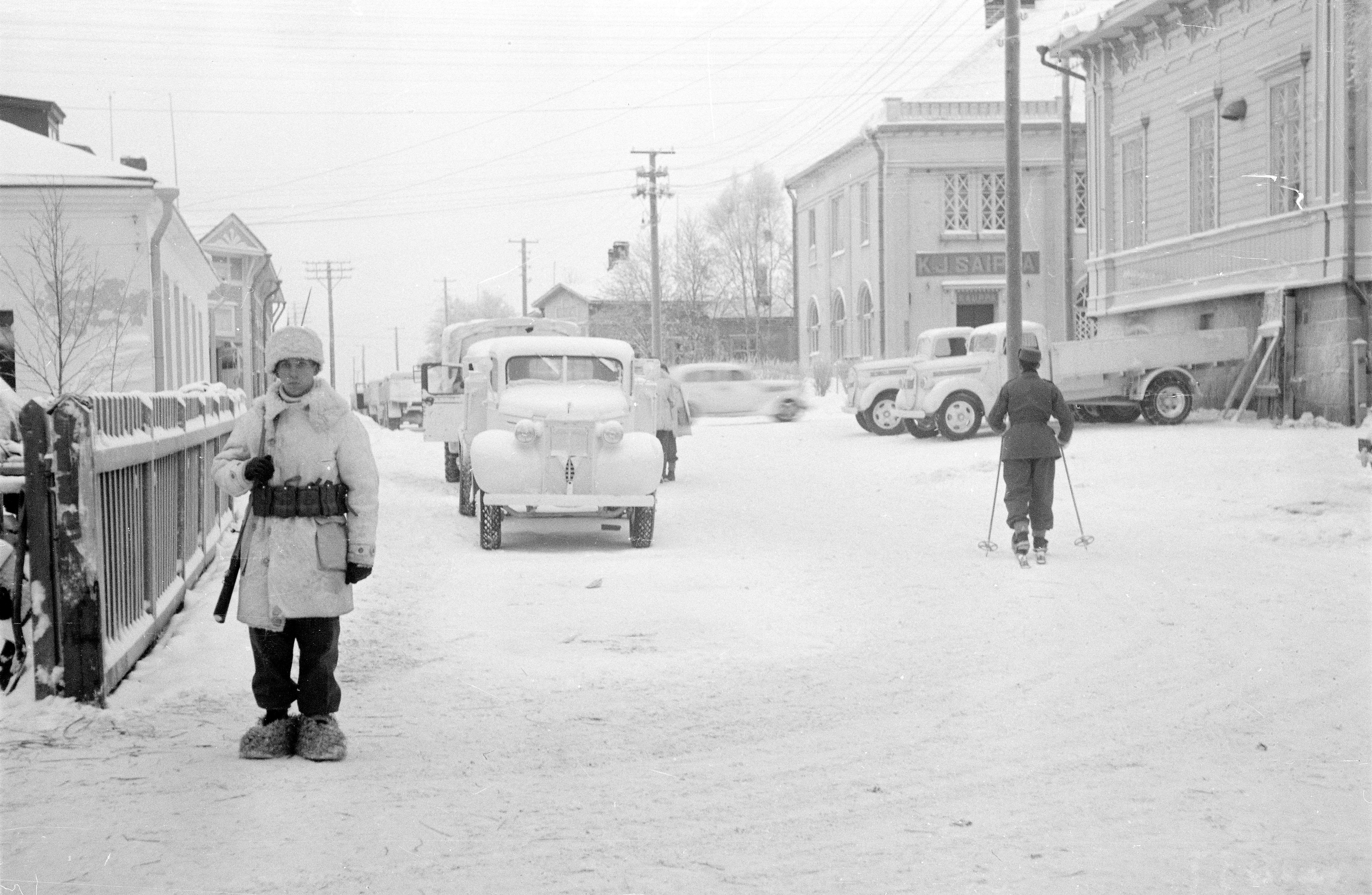 Swedish volunteer soldiers came to Finland via the border town Tornio since the end of December 1939. This picture has been taken in Tornio, Hallituskatu. The Swedish group took the front responsibility in Salla in March, 1940.